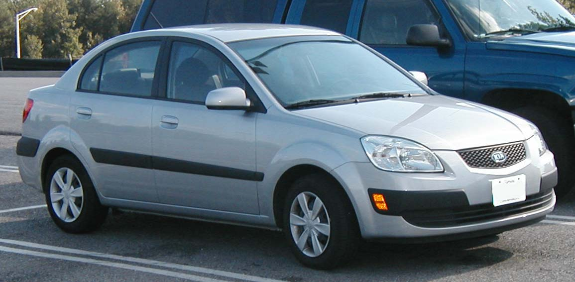 2006 Kia Rio photographed in USA.